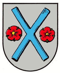 Coat of arms of Imsweiler